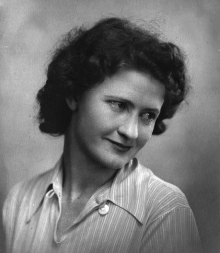 New Zealand painter Gabrielle Valerie Hyacinthe Allan, later Gabrielle Yeats and Gabrielle Hope. "Gabrielle, aged 21 years." Private collection, Blenheim.